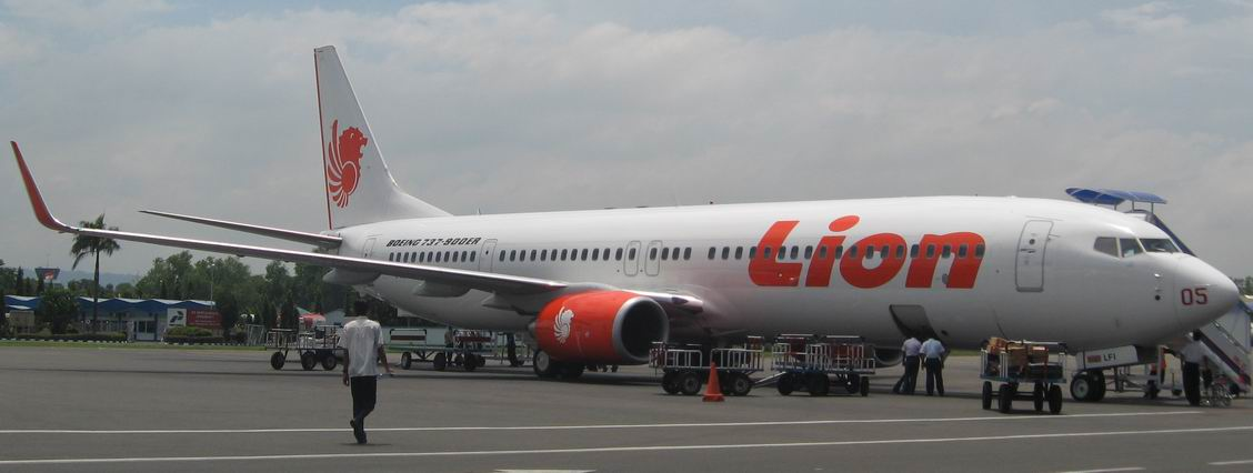 Lion Air Boeing 737-900ER (PK-LFI) at Hasanudin Airport of Makassar